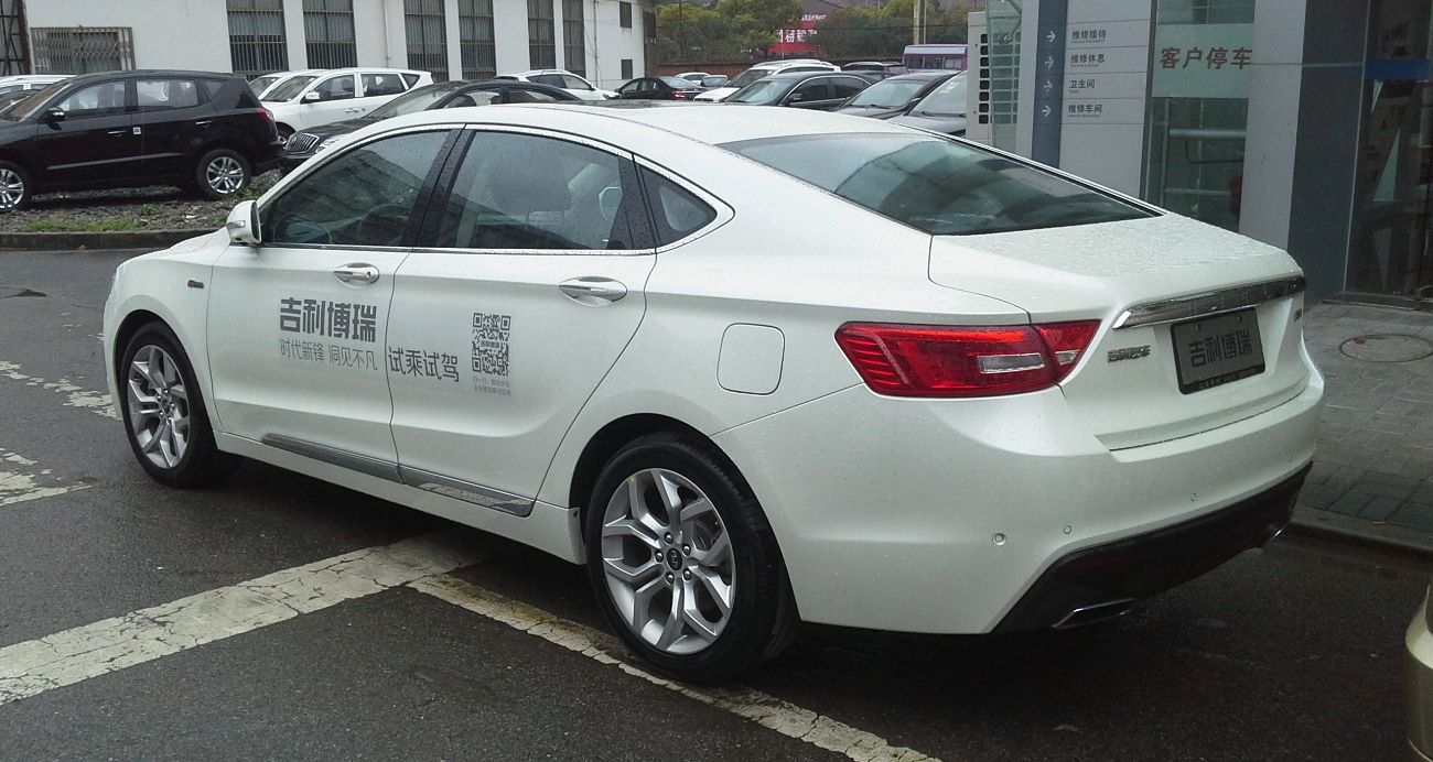 Geely Borui photographed in Shanghai, China.